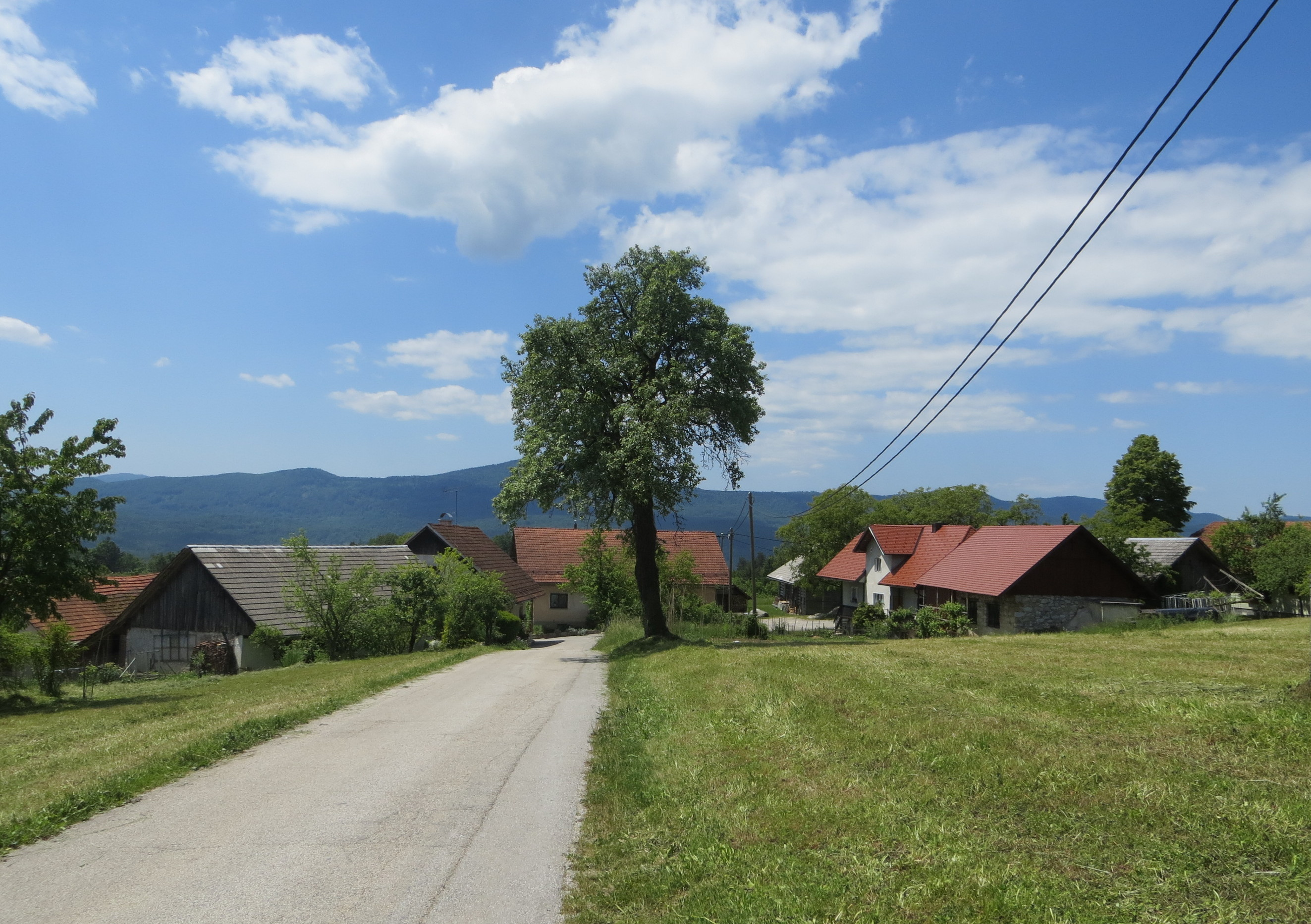 Hinje, Municipality of Žužemberk, Slovenia